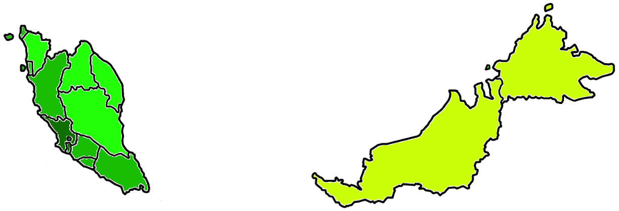 Choropleth map showing Malaysian states and federal territories by Human Development Index as of 2018, made using Paint X Lite. 0.850–0.899 0.800–0.849 0.750–0.799 0.700–0.749